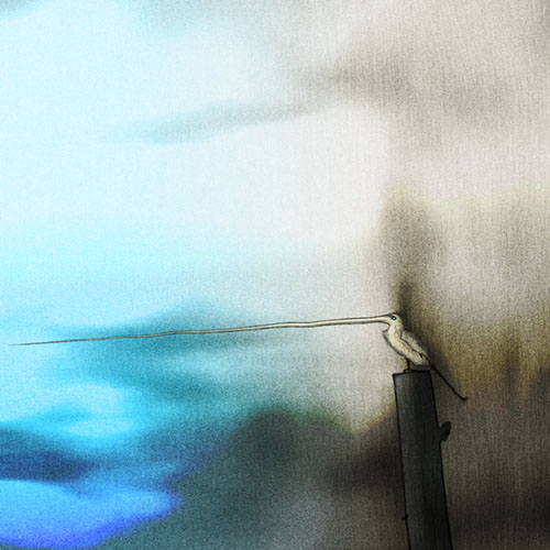 "Cloud Picker", giclée graphics by Nerva